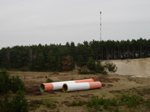 Sender Verden: rest of the antenna's cover